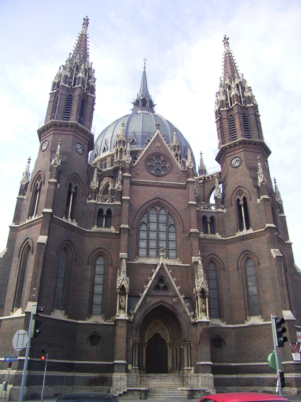 Church "Maria vom Siege" in Vienna Photo made by Joern Moehring Date: 22. Feb. 2007